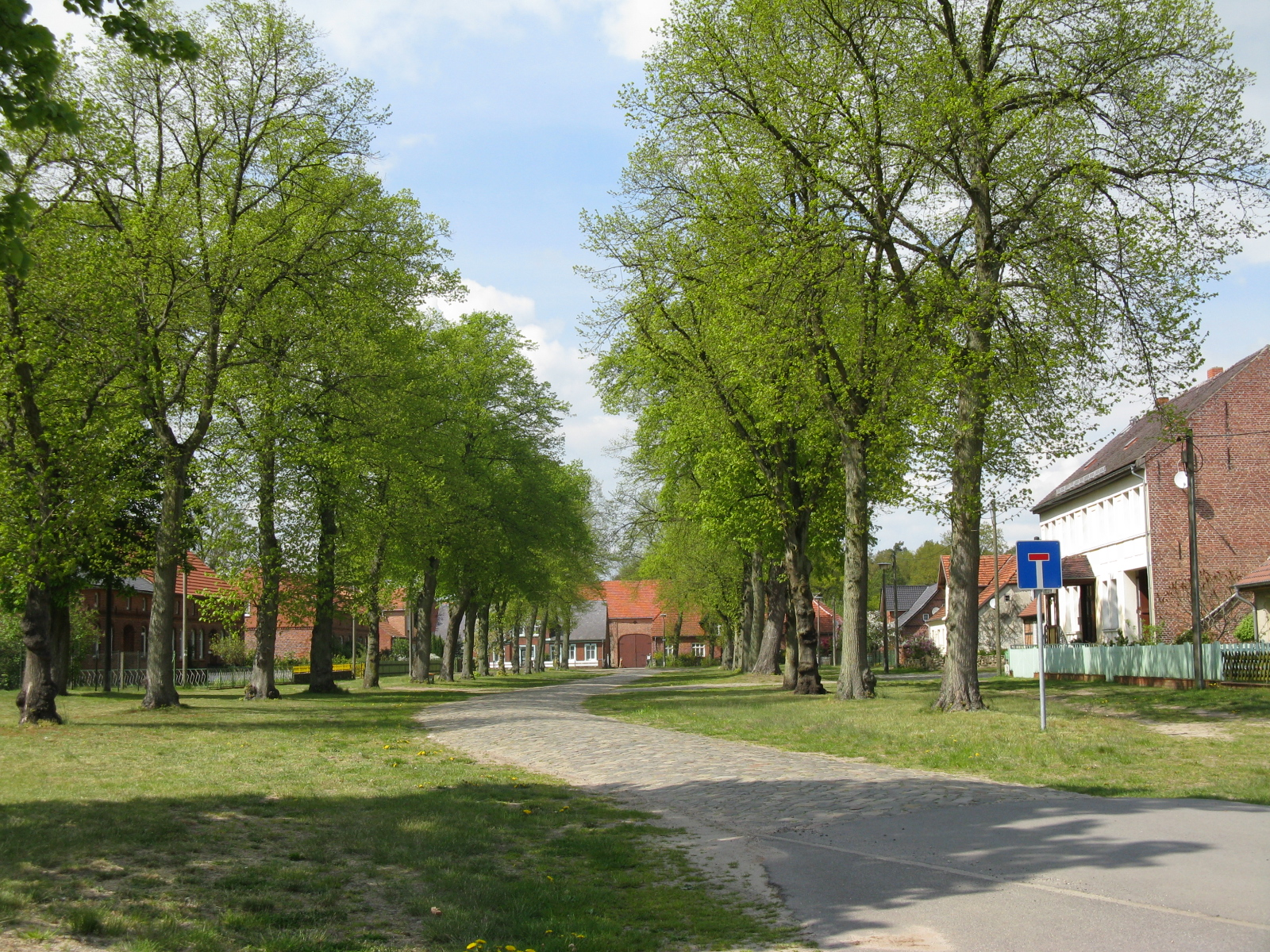 Street Unter den Linden in Krinitz, district Ludwigslust-Parchim, Mecklenburg-Vorpommern, Germany